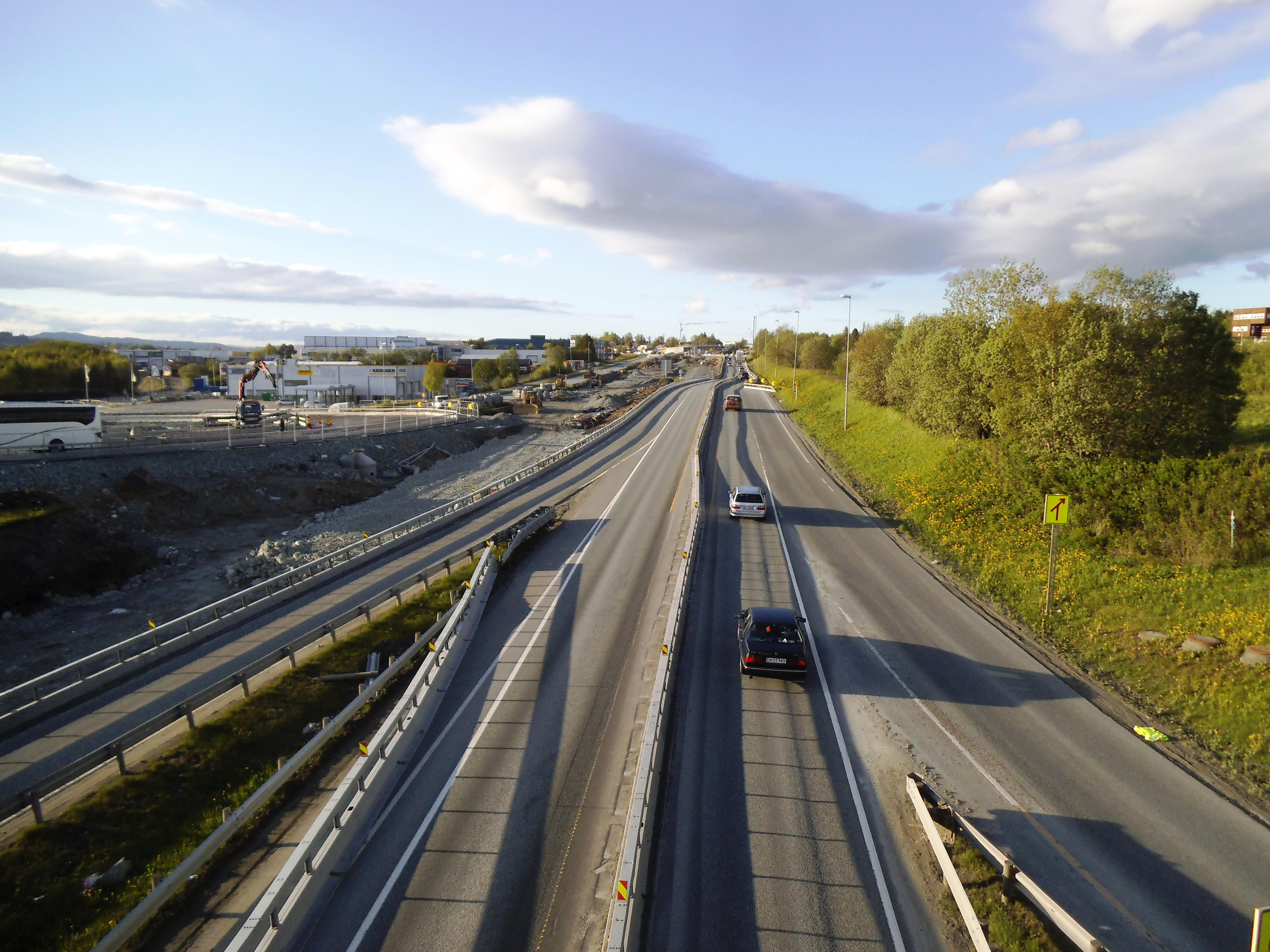 Construction of a new highway in Tiller, Trondheim.